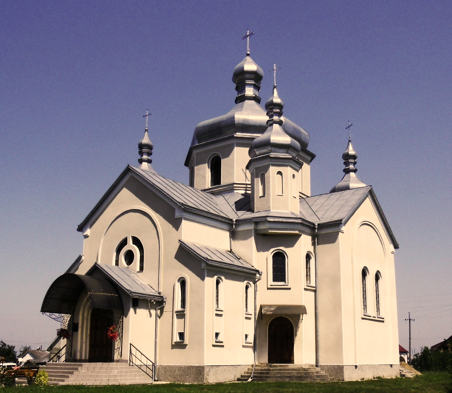 Berlohy, Rozhniativ Raion, Ivano-Frankivsk Oblast, Ukraine. Church of the Blessed Virgin Mary (was consecrated in 2007 ).